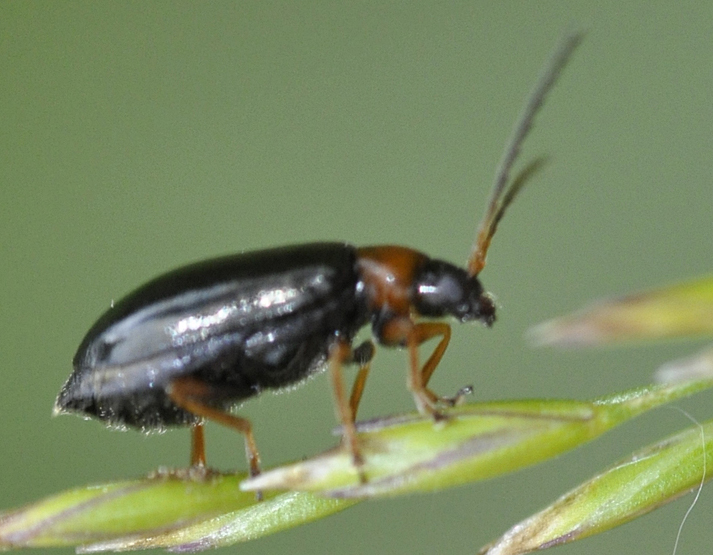 Luperus luperus (Fueßlin, 1775). Germany: Hessen, Kreis Eschwege, Hoher Meissner mountain peak region near Witzenhausen, 740 m.